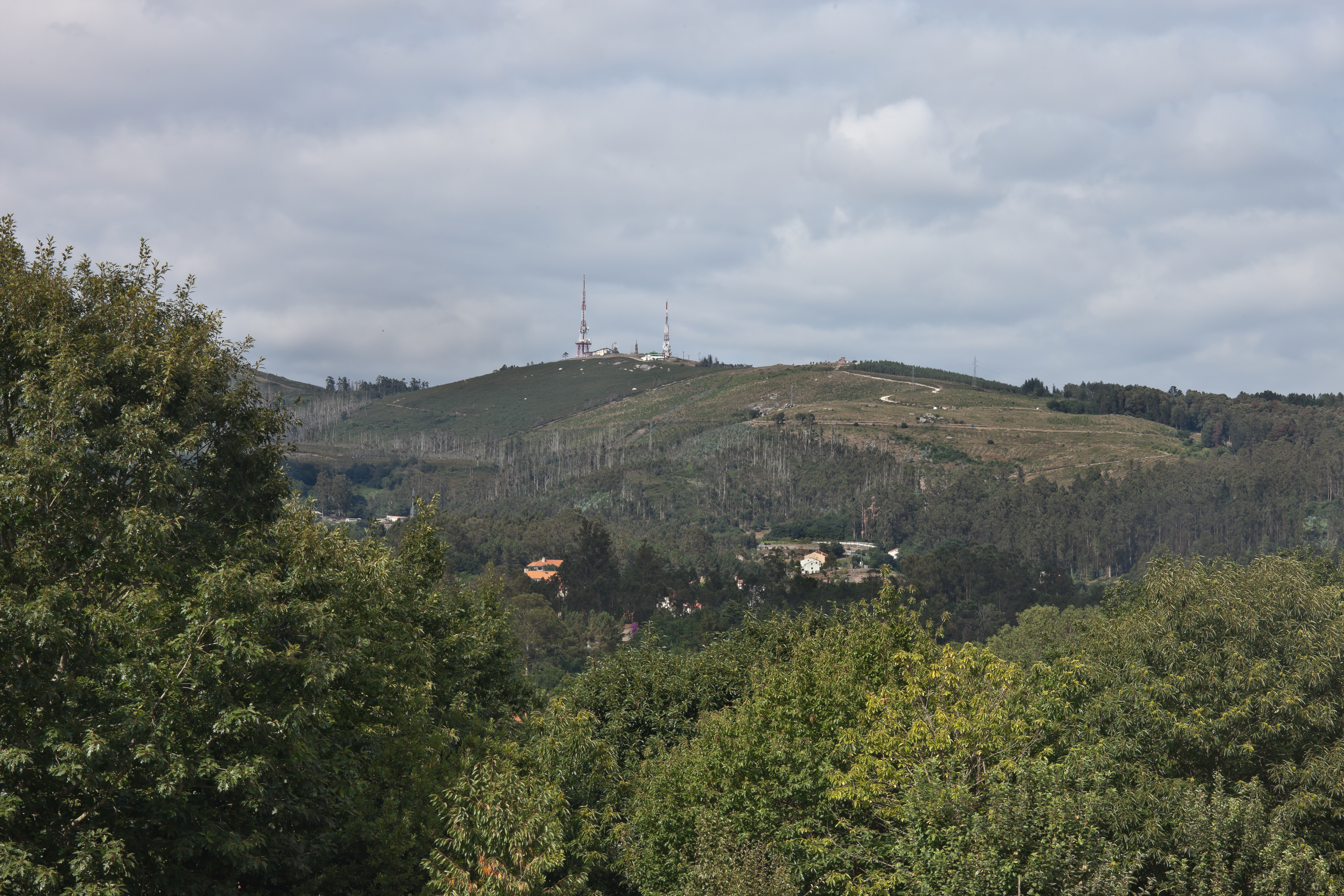 Pedroso mountain, Laraño, Santiago de Compostela, Galicia, SpainGalego: Monte Pedroso, Laraño, Santiago de Compostela, Galicia